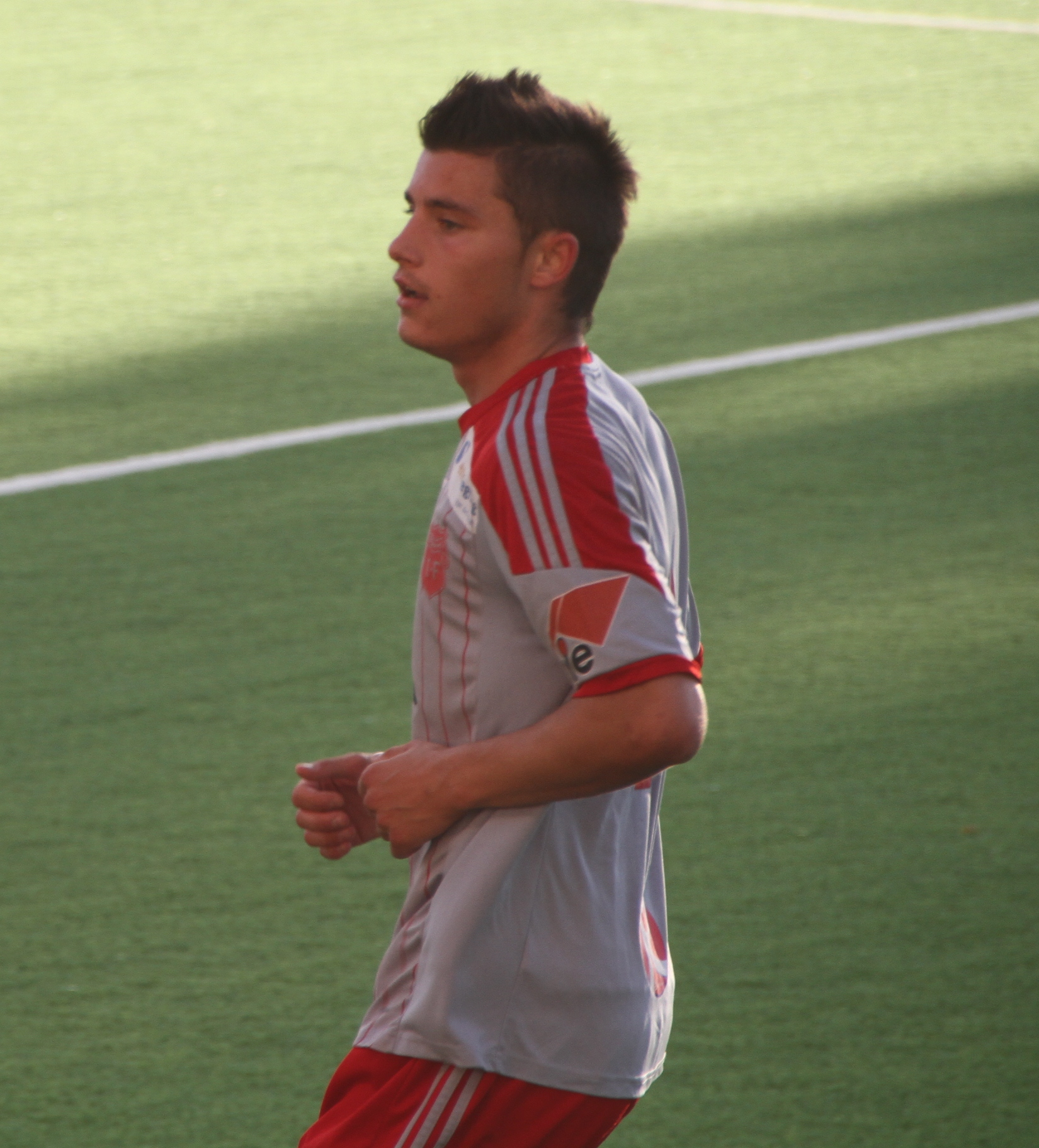 Strømmen IF player Kim Andre Brandtzæg in his debut match for Strømmen on August 26, 2012. Match against IK Start. Brandtzæg previously played briefly for Byaasen (Trondheim).